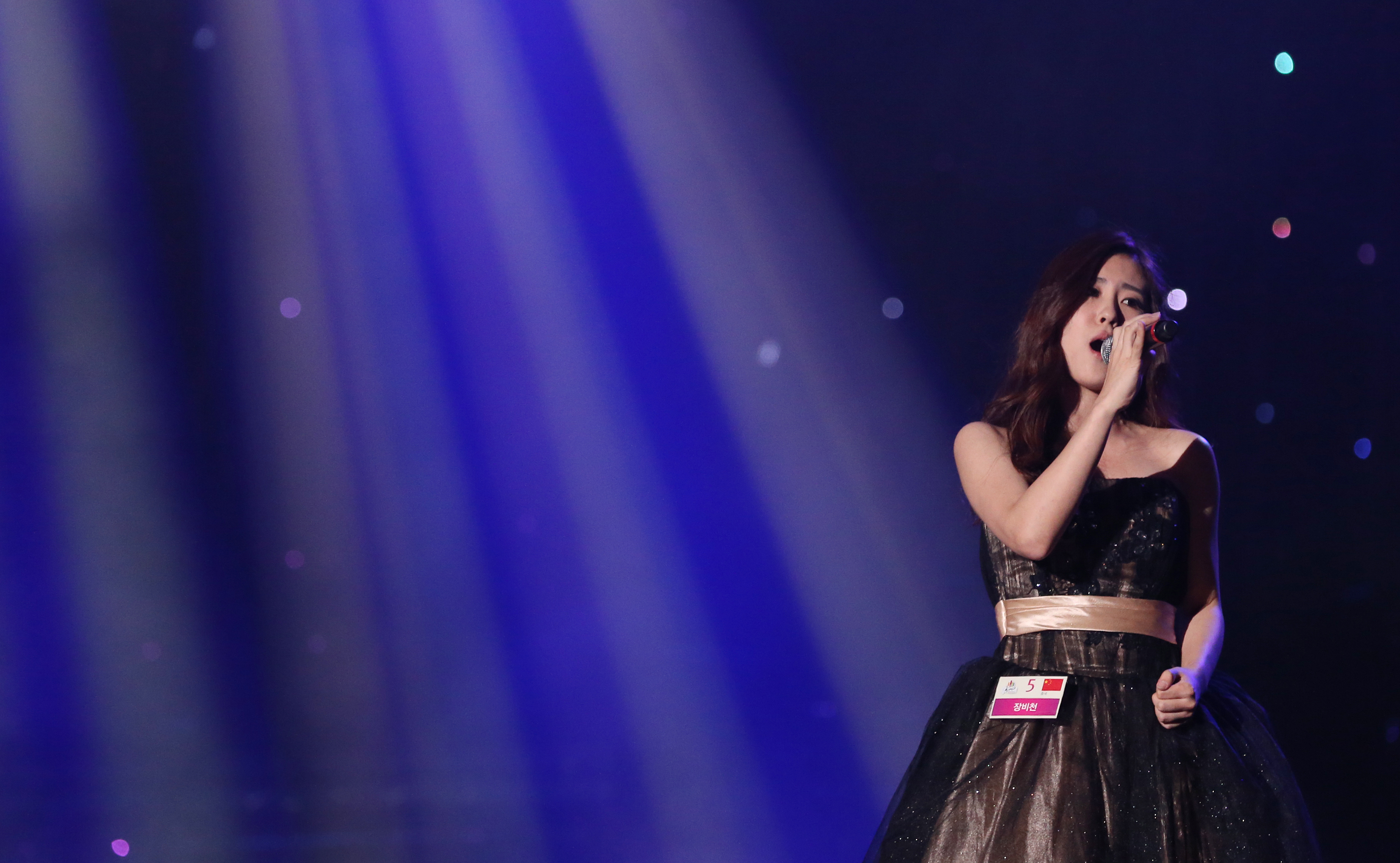 2012 K-POP World Festival Performance by Zhang Bi Chen (China) Changwon, Korea 2012.10.28. Ministry of Culture, Sports and Tourism Korean Culture and Information Service Jeon Han 2012 K-POP 월드 페스티벌 중국 여자솔로 장비천 경상남도 창원시 문화체육관광부 해외문화홍보원 코리아넷 전한